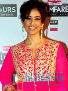 Manisha Koirala at Filmfare Awards 2014